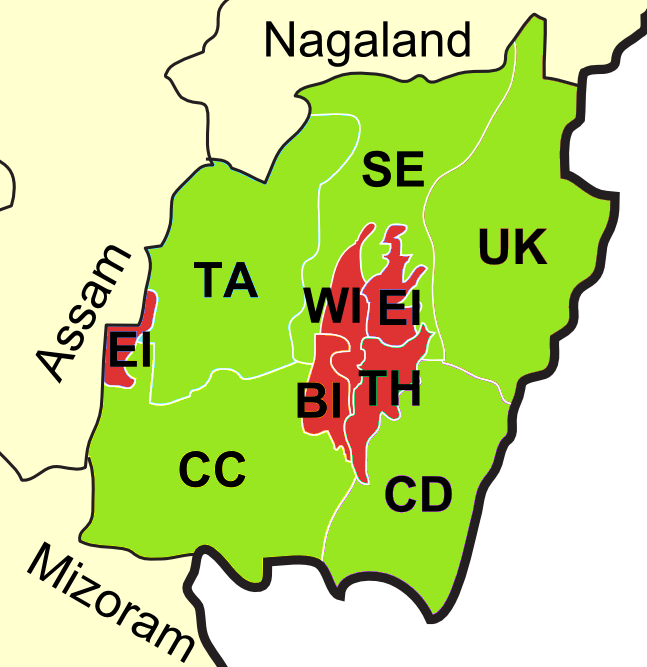 Map showing districts of Manipur that are under alcohol prohibition.